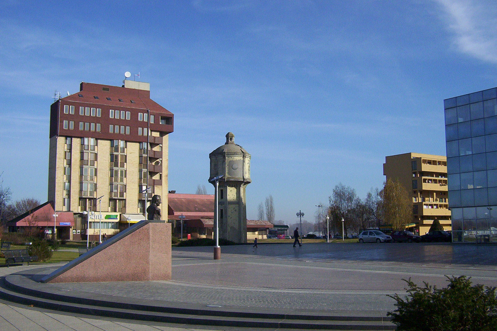 Town of Vukovar. New square named after deceased president of Croatia, Franjo Tuđman